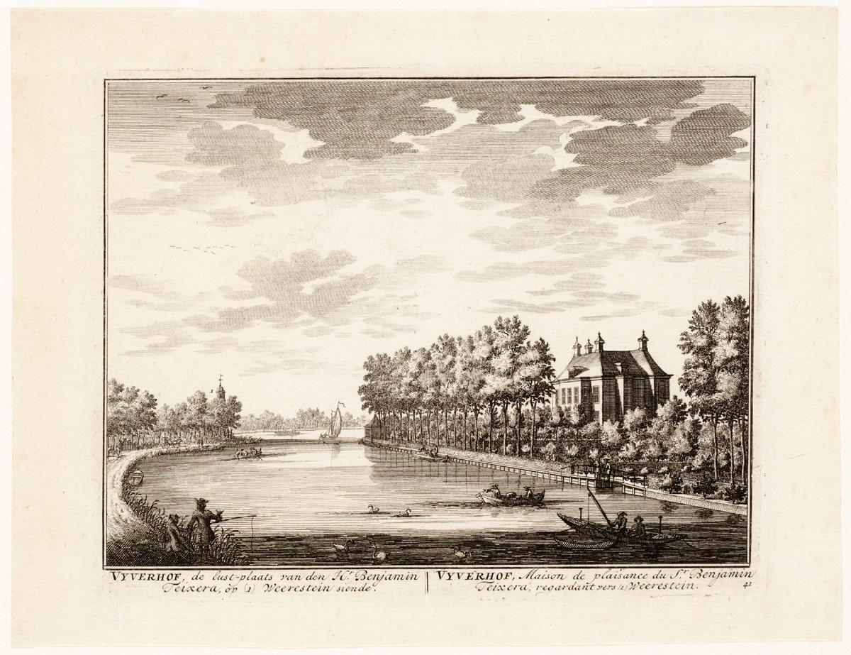 View of Vijverhof on the Vecht river.